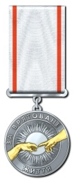 Medal of lives saved